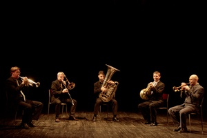 Simply Brass Quintet in Vatroslav Lisinski Concert Hall in Zagreb (2011)